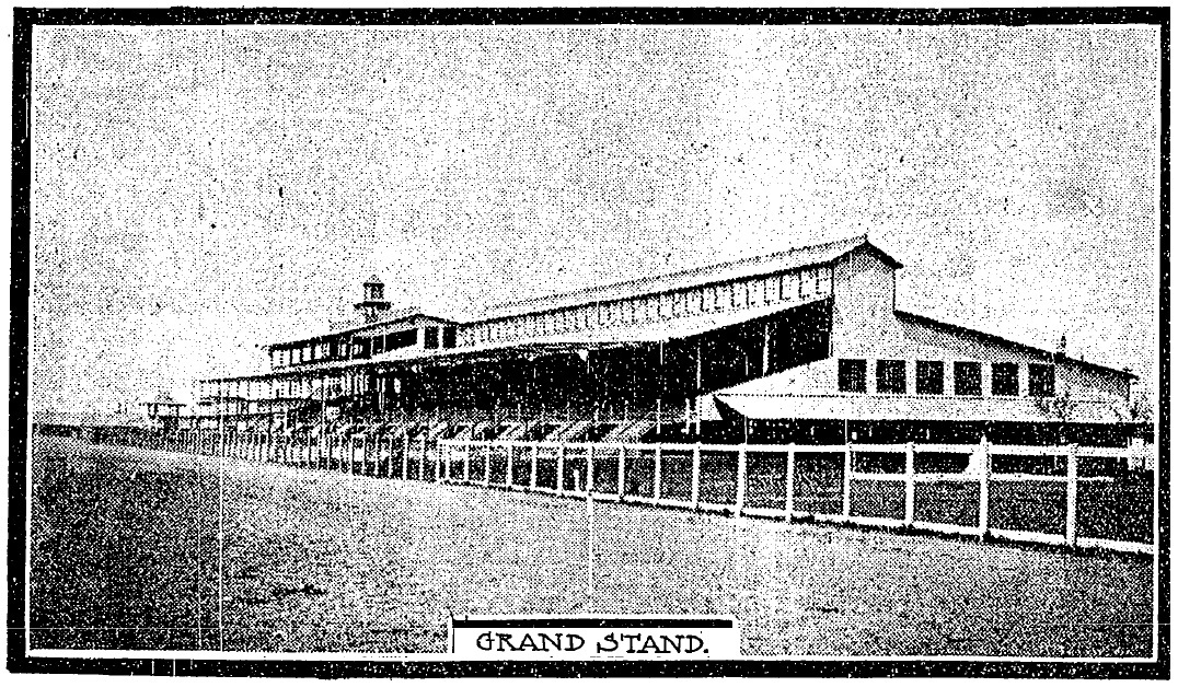 View of the Harlem Race Track Grandstand in June 1901.